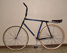 Bicycle for cycle-ball